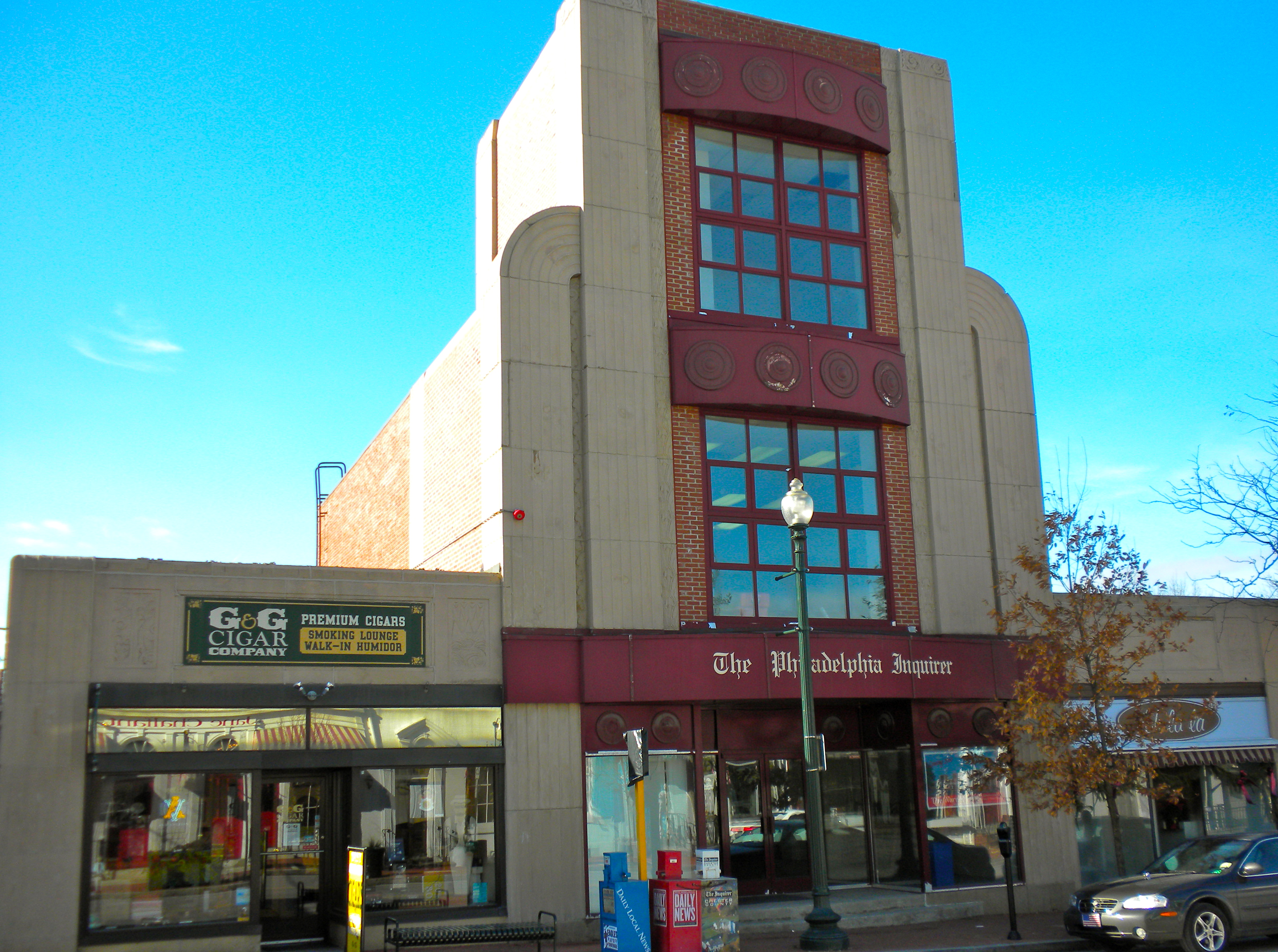 Warner Theater, 120 N. High Street, West Chester, PA. On the NRHP. I donate this photo to the public domain.